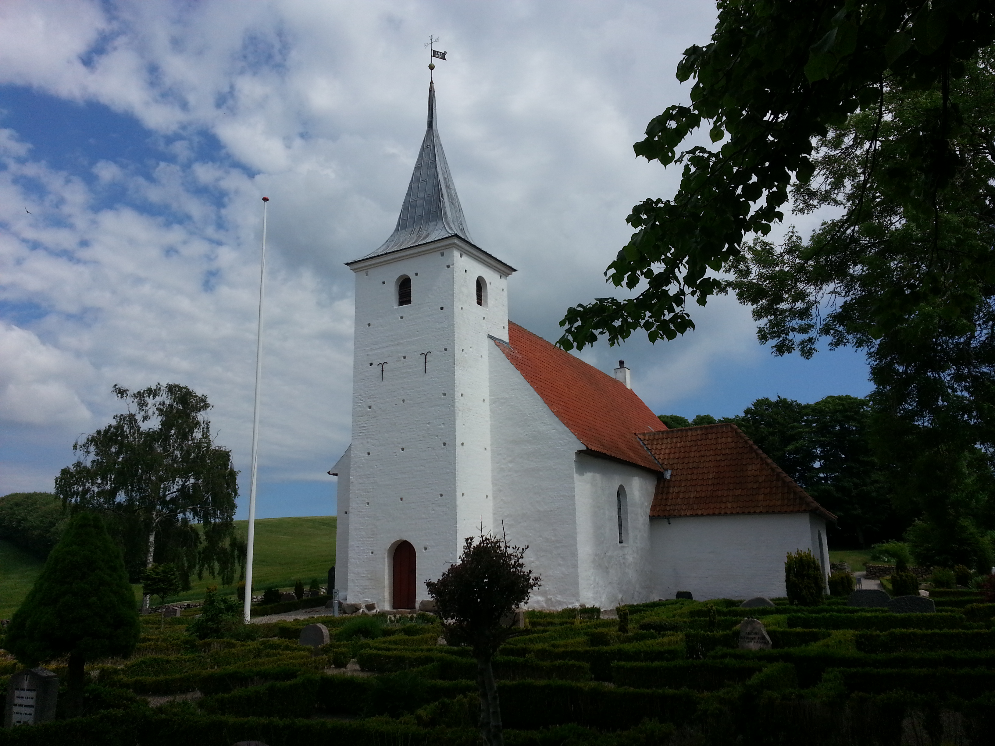 Church of Agri in Mols Bjerge, Djursland.